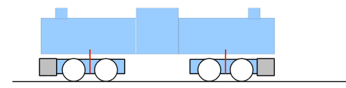 Farlie loco